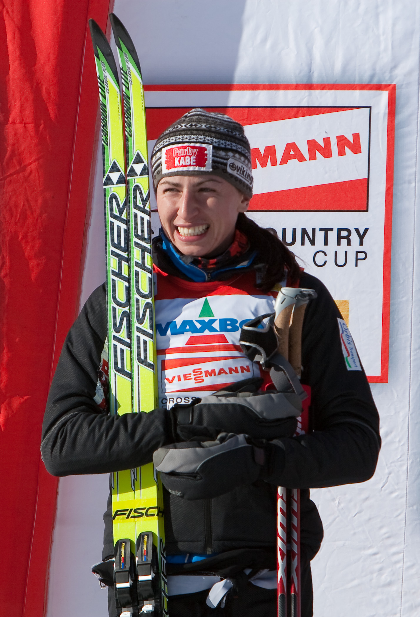 Justyna Kowalczyk on the podium in Trondheim the weekend before the last races of the 2008/2009 season. The license on this photo was changed on 11 February 2010 from All rights reserved to Creative Commons (CC-BY-SA). At the same time, a bigger version (1428x2100px) of the photo replaced the old one. If you use this picture, remember to give credit according to the license (